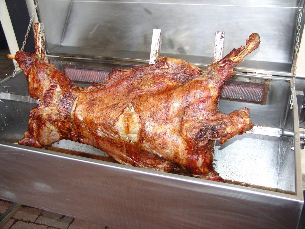 This is a typical South African Lamb Spit braai This is an image of food from South Africa